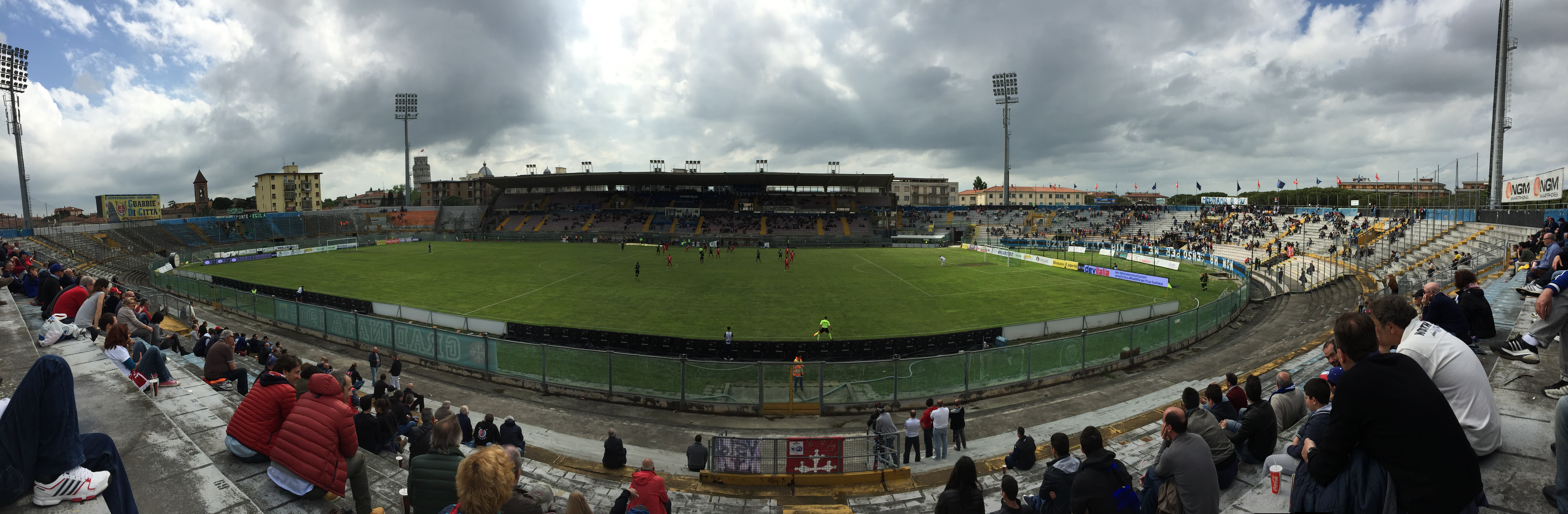 Stadio Arena Garibaldi - Romeo Anconetani in Pisa during the game AC Pisa 1909 vs. AC Tuttocuoio (02.05.2015)